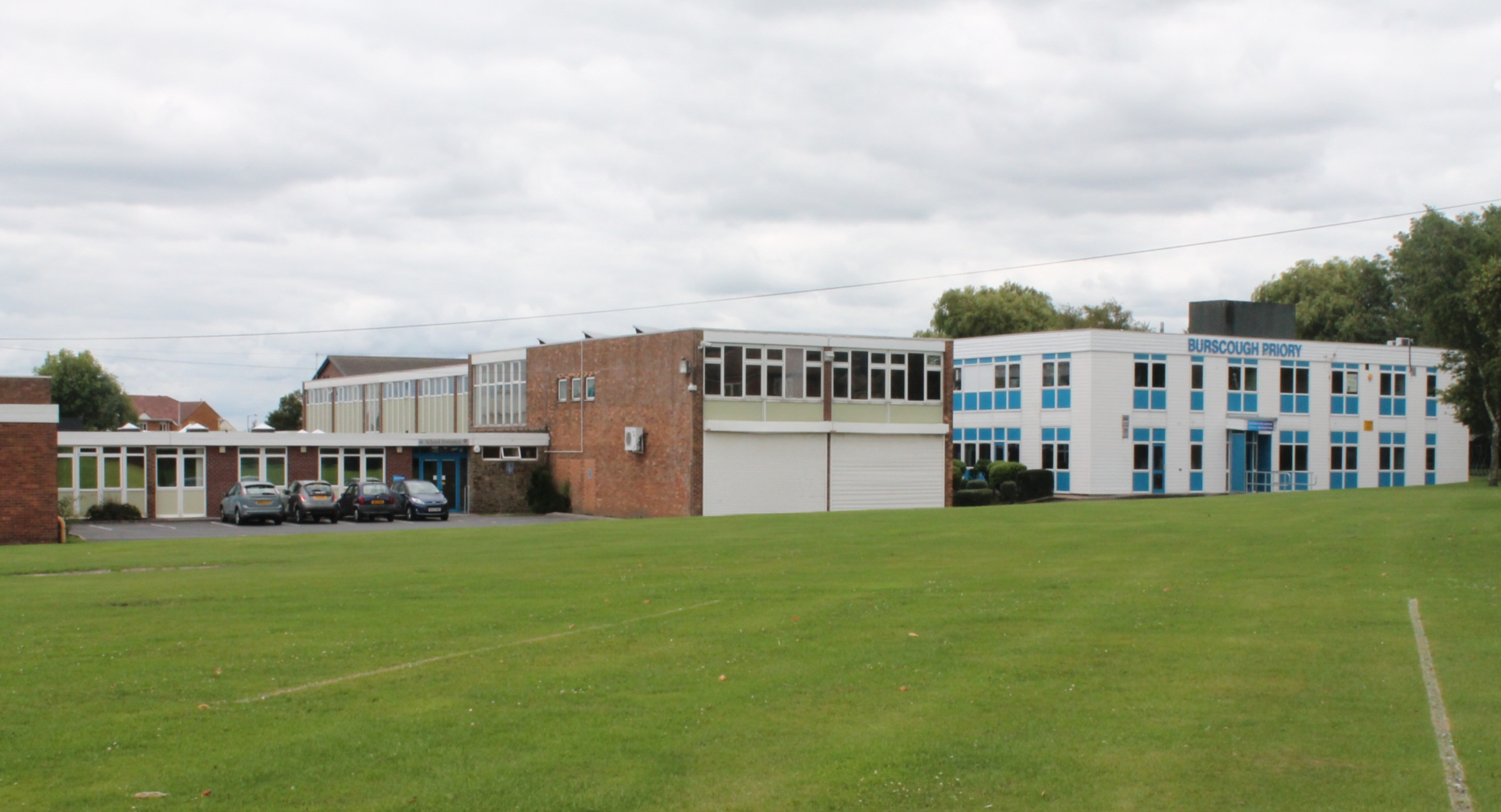 Photo of the high school Burscough Priory Science College.